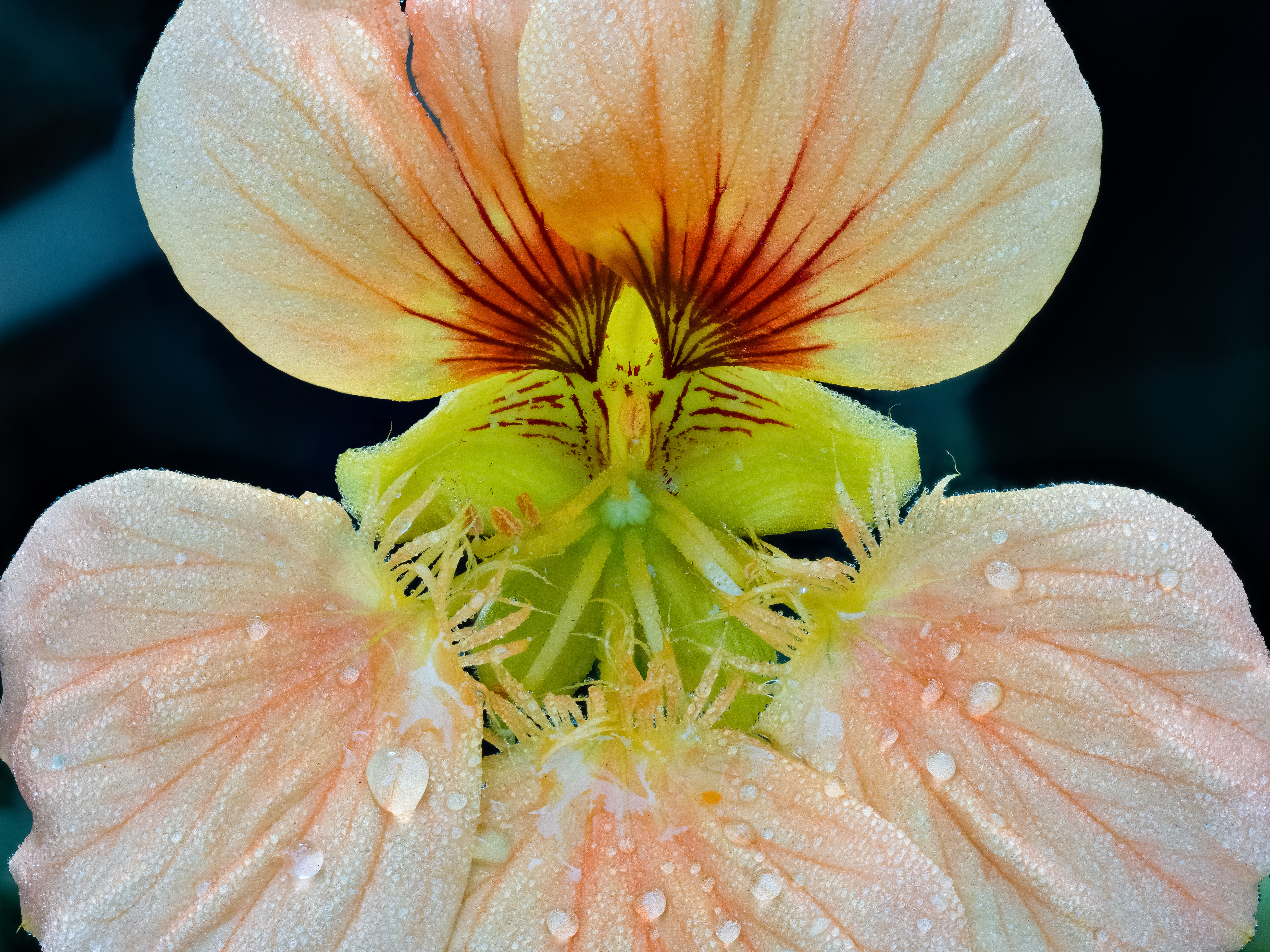 Flower of nasturtium with drops of water stacked with Helicon Focus from 18 pictures